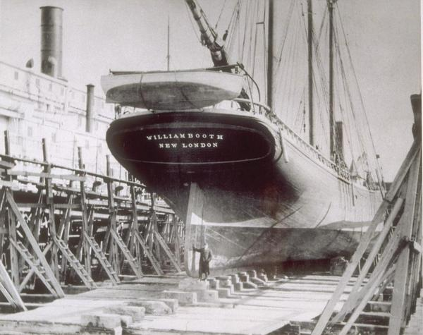 Title: Three-masted schooner WILLIAM BOOTH in dry dock, Atlantic Works, East Boston, 1910. Category: PHOTOGRAPHS. Type: silver print. Note: "stern view of 3-masted schooner WILLIAM BOOTH of New London in dry dock at Atlantic Works, East Boston, 1910; 435 tons, built 1903 at Pistol Point Shipyard of M.B. McDonald." --Mystic Seaport catalog